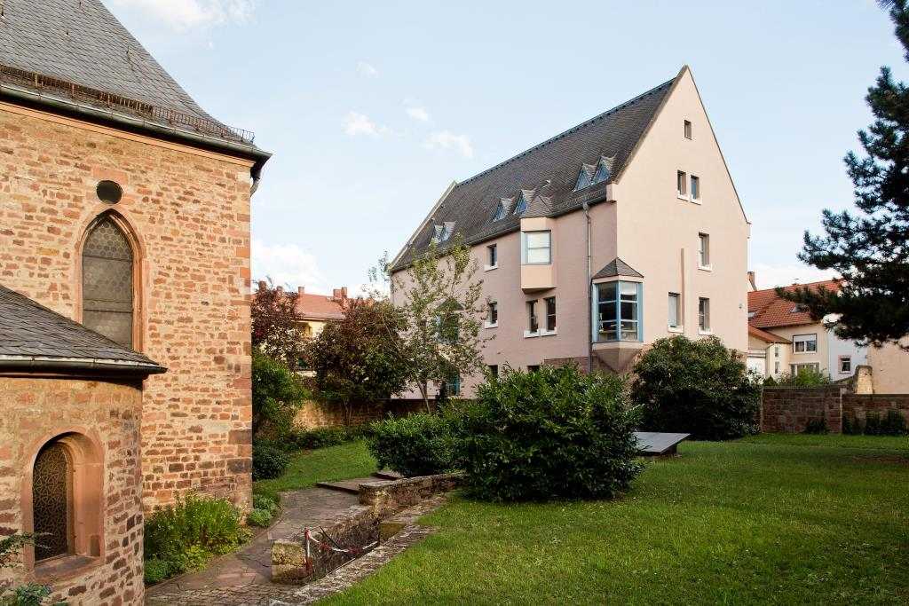 The Jewish Museum (Raschi-Haus) in the background (in the south); in the foreground on the left, the synagogue of men (the western part of the synagogue, today the Jeschiwa); in the foreground in front of the Jewish Museum, the synagogue garden.